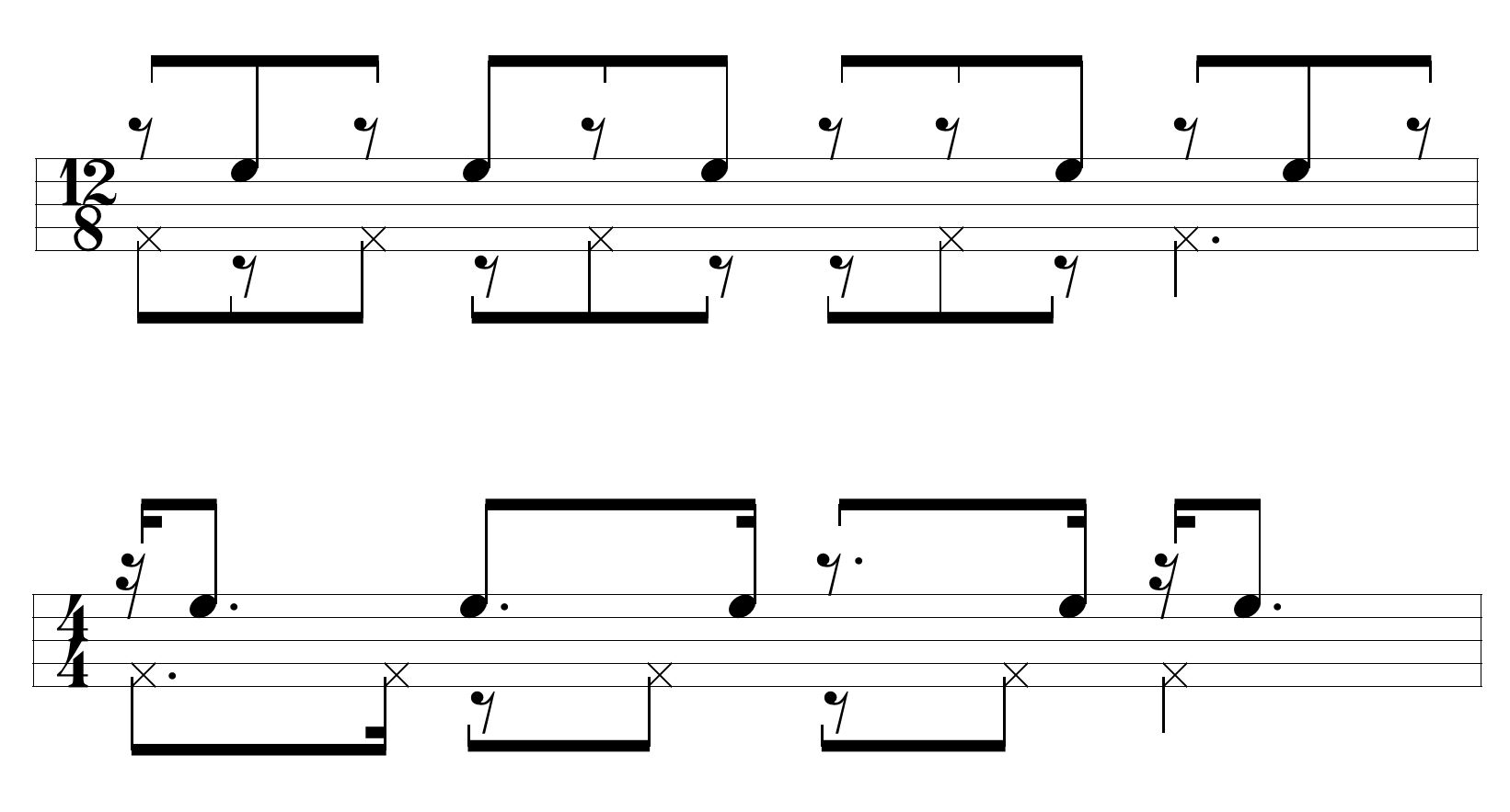 refined version of example showing quinto lock strokes as a displaced clave